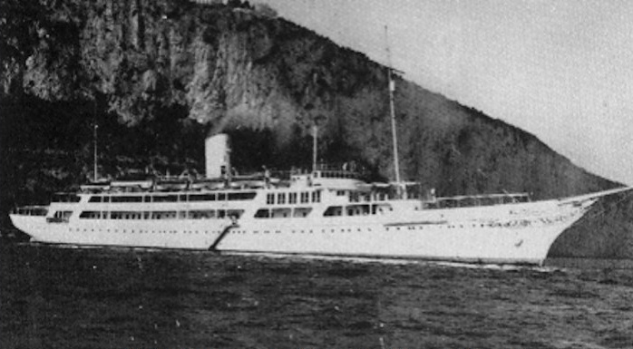 Al-Mahrousah Royal Egyptian Yacht